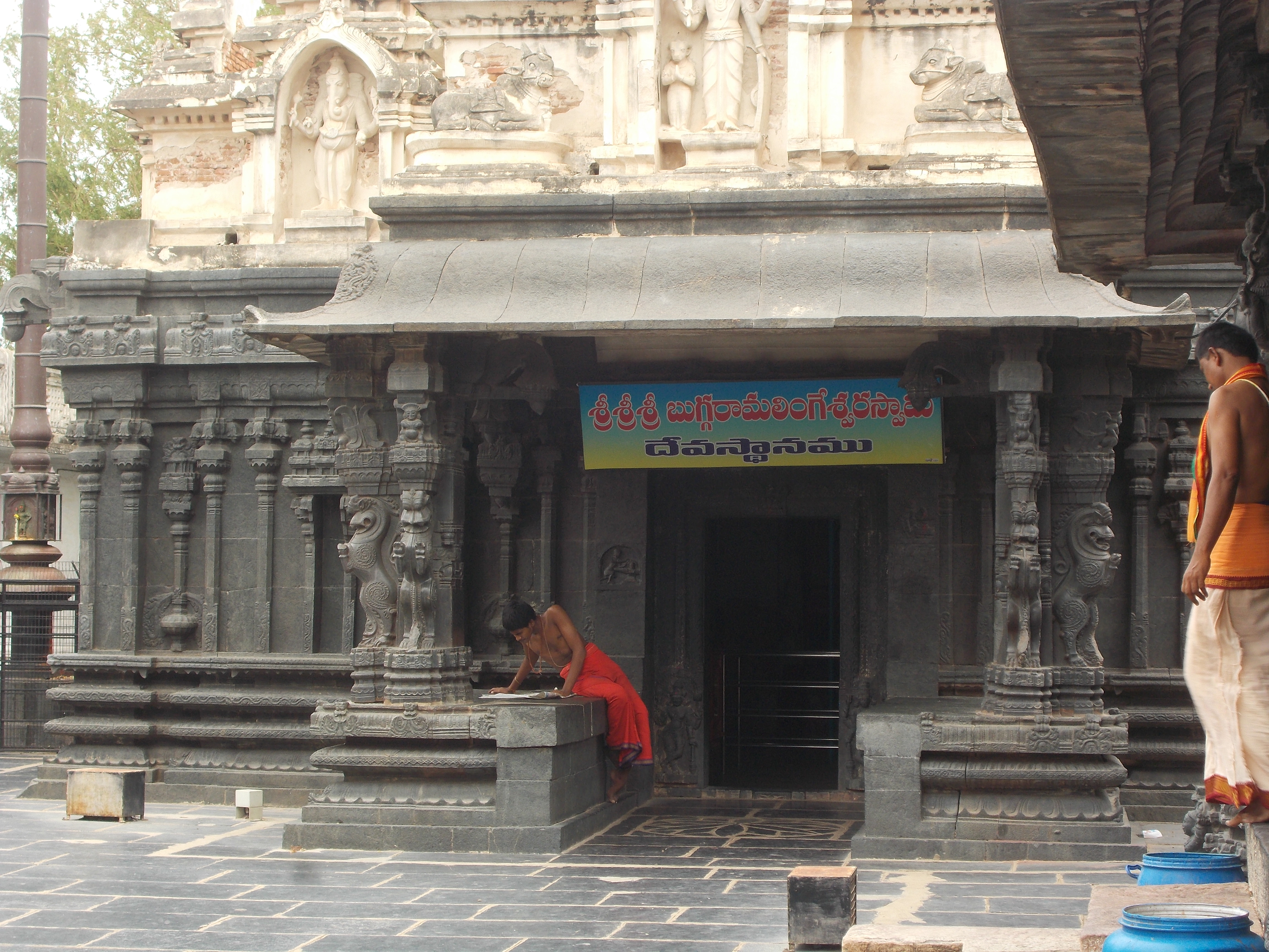 Dedicated to Lord Shiva, the Bugga Ramalingeswara temple gets is name from a stream that is believed to flow underground which oozes water around the Shiva Linga.